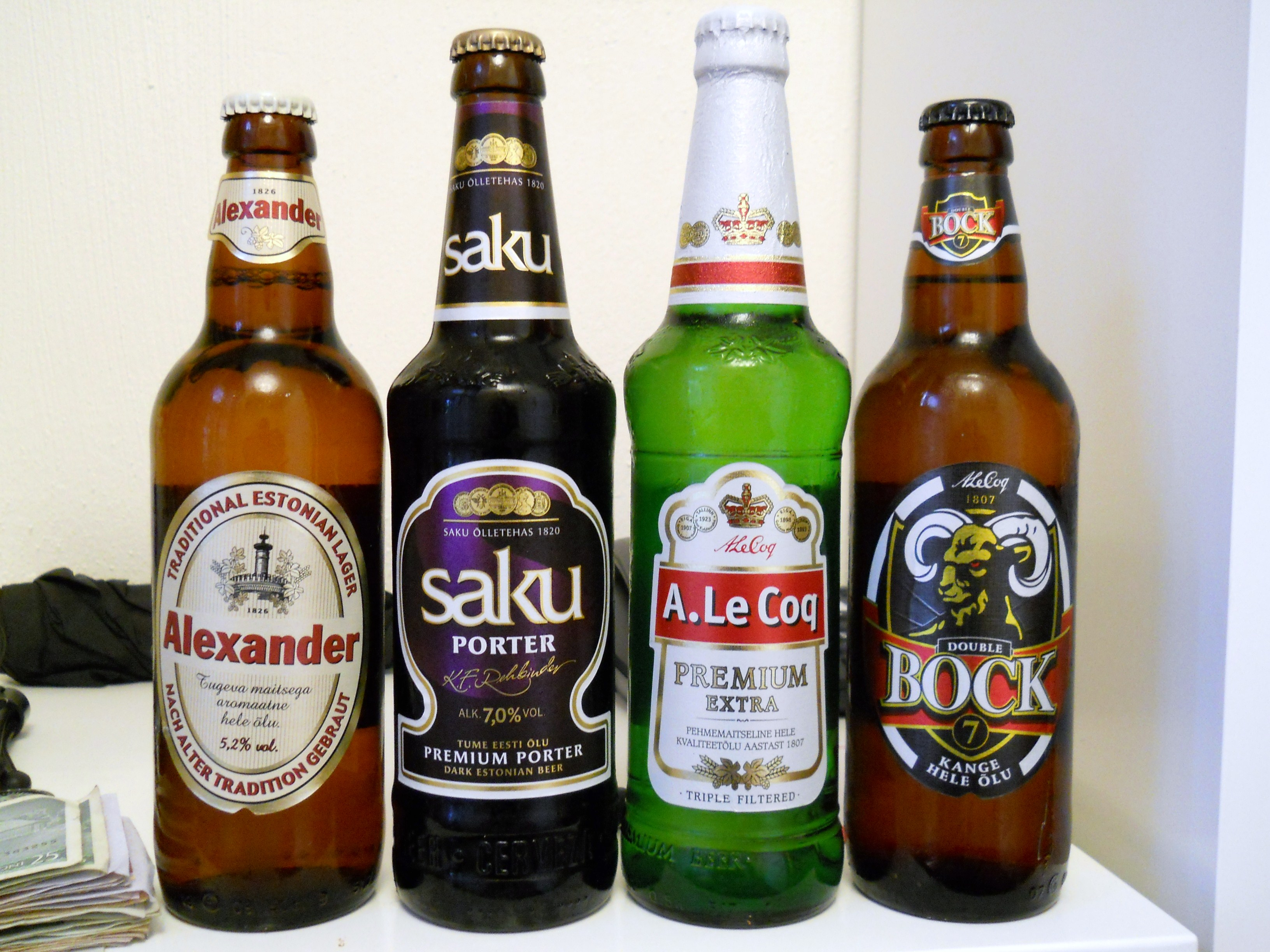 Estonian beers: A. Le Coq Alexander Saku Porter A. Le Coq Premium Extra A. Le Coq Double Bock